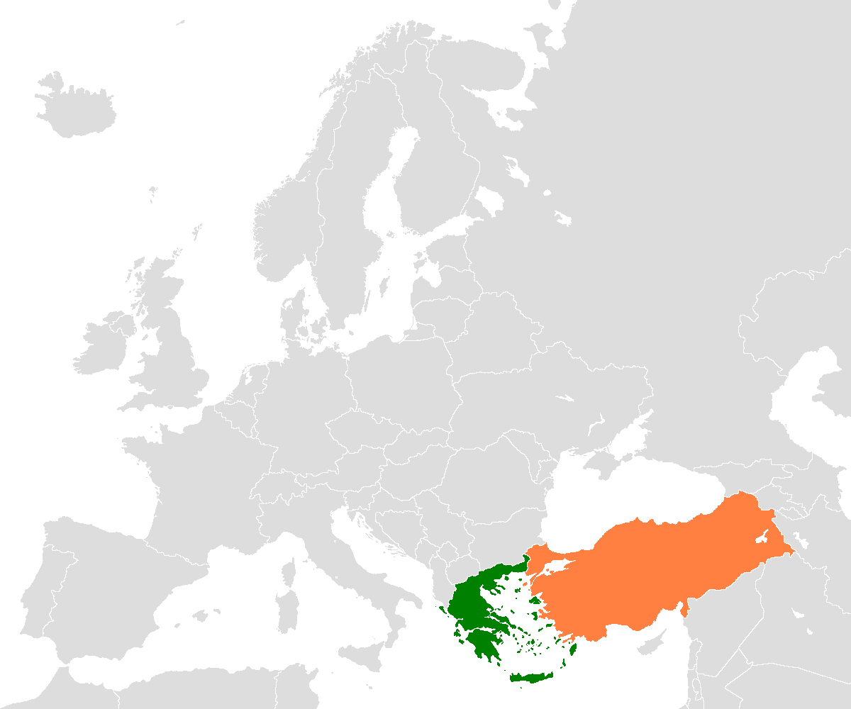 Created by me for use in bilateral relations article. Khoikhoi 06:15, 26 November 2006 (UTC)